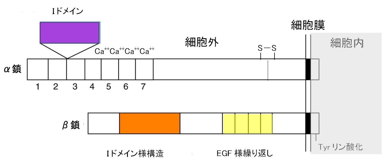 Japanese version of Domain structure of integrin heterodimer